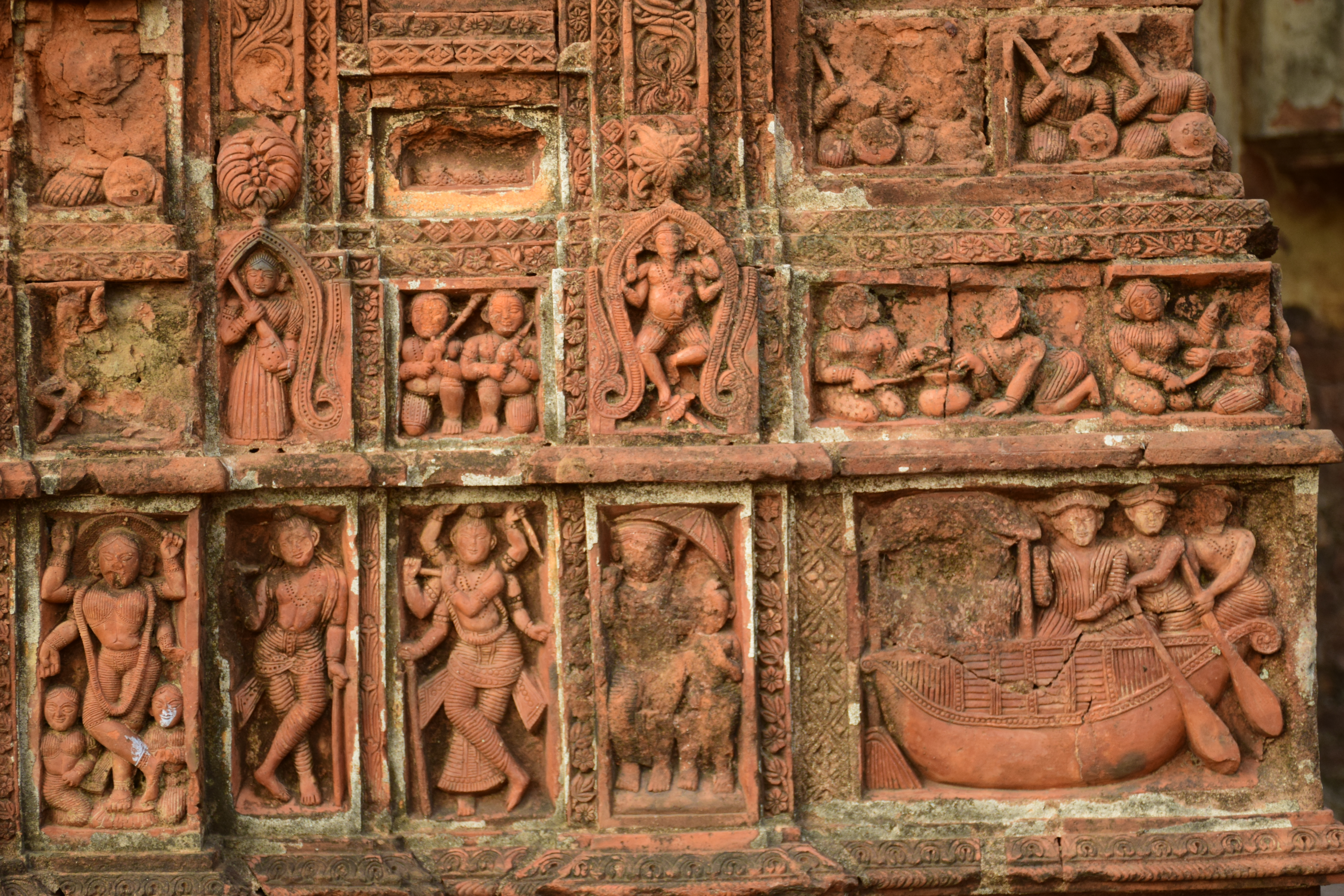 Terracotta Panels on Pancha Ratna Gopaleswar Shiva Temple in Banakti at Paschim Bardhaman 01